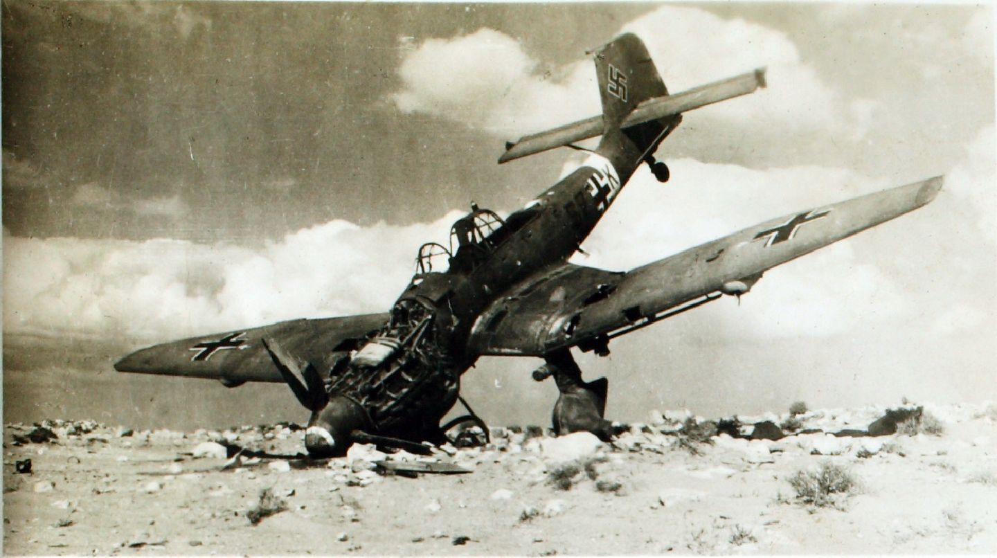 A crashed Junkers Ju-87 Stuka.